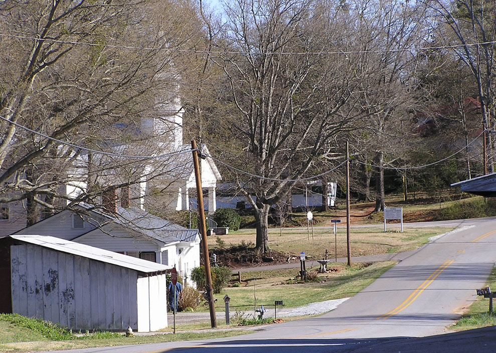 A side street in downtown Homer in Banks County. This side street is off of the main street, across from the park downtown. The church is the First Baptist Church.